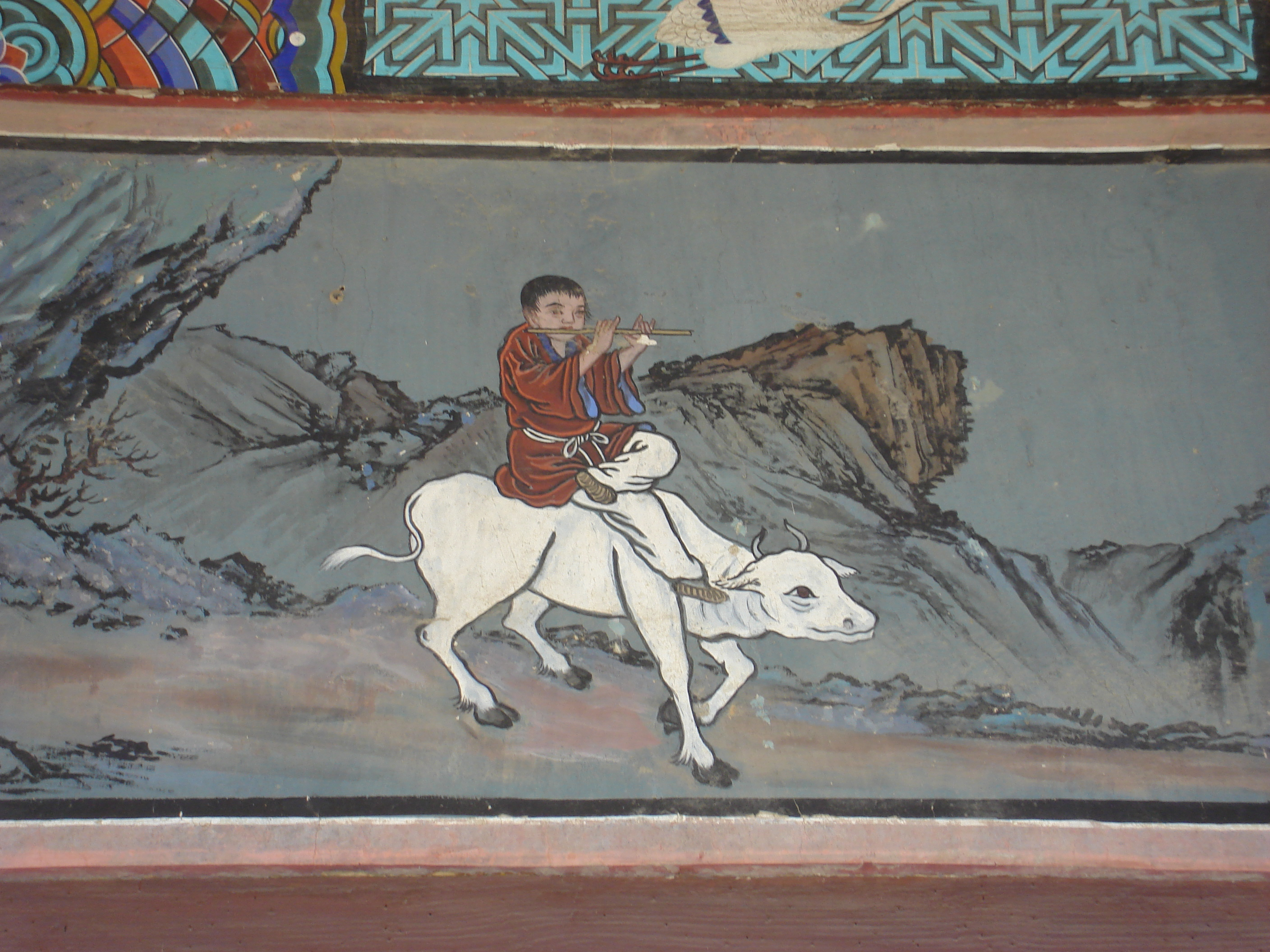 A panel from the artwork at Unmunsa temple, in South Korea (운문사)